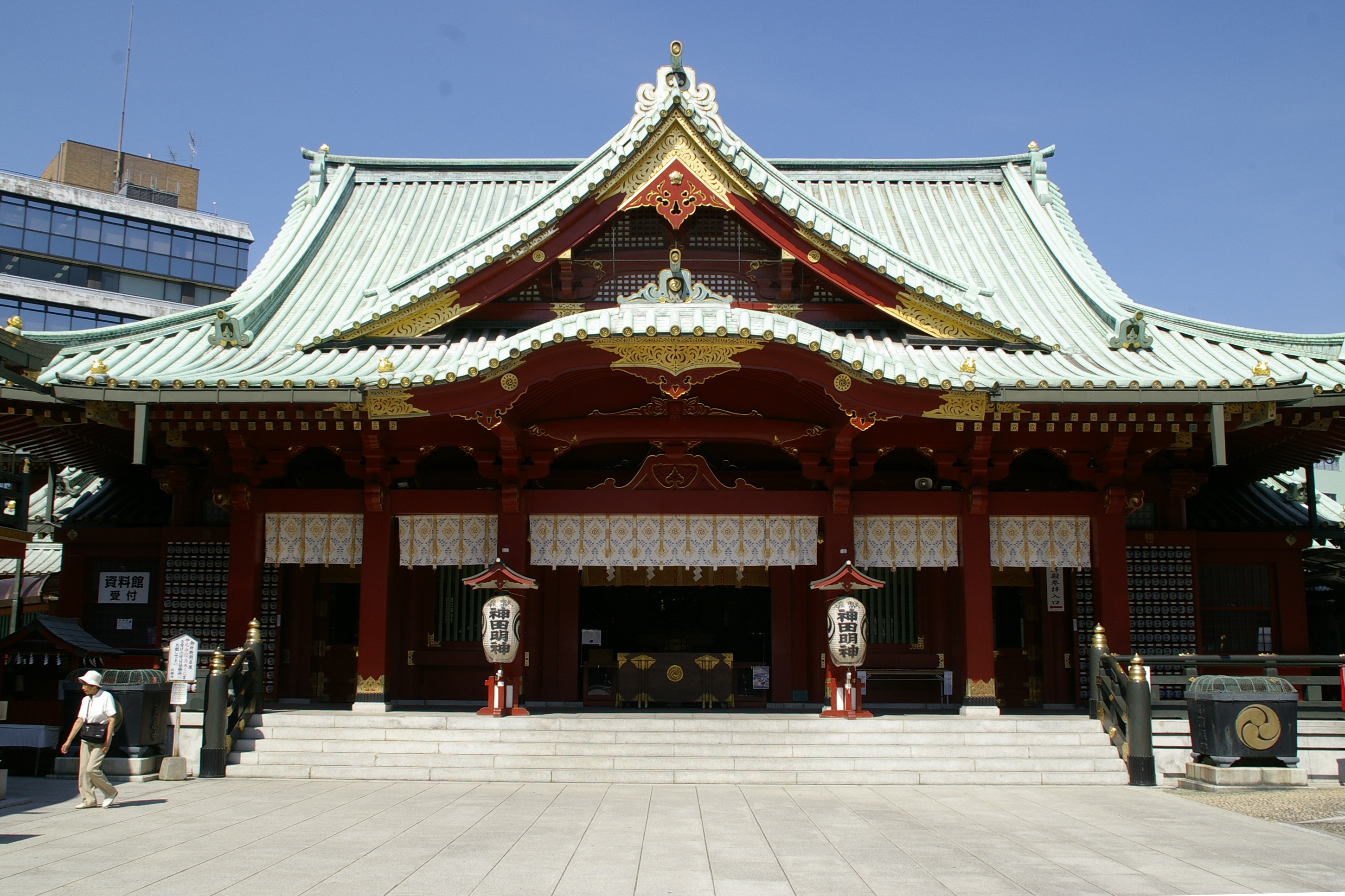 Kanda Myojin - Honden (main building)